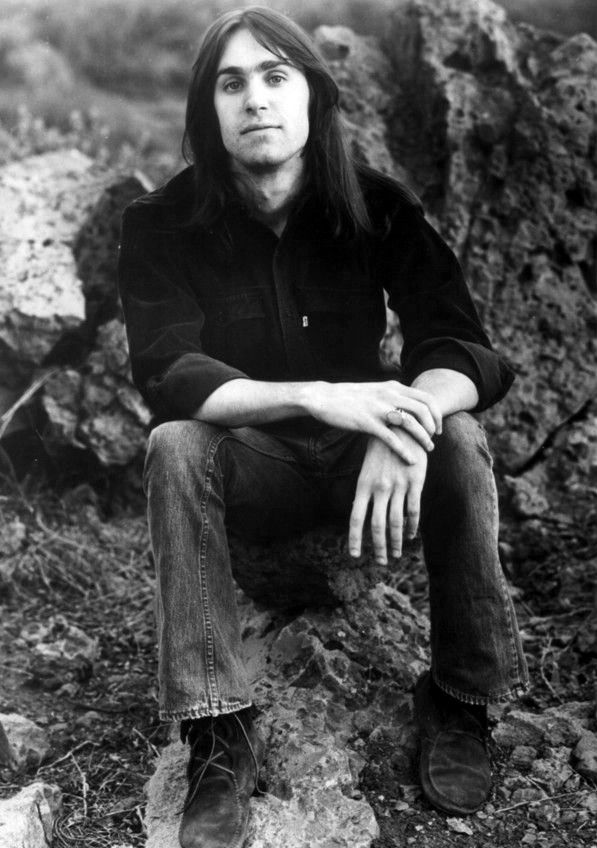 Publicity photo of musician Dan Fogelberg in 1974 from Epic Records, his record company at that time.